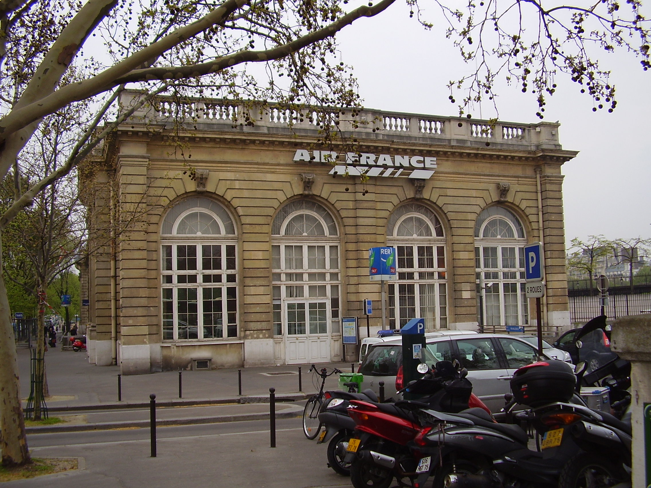 Gare des Invalides